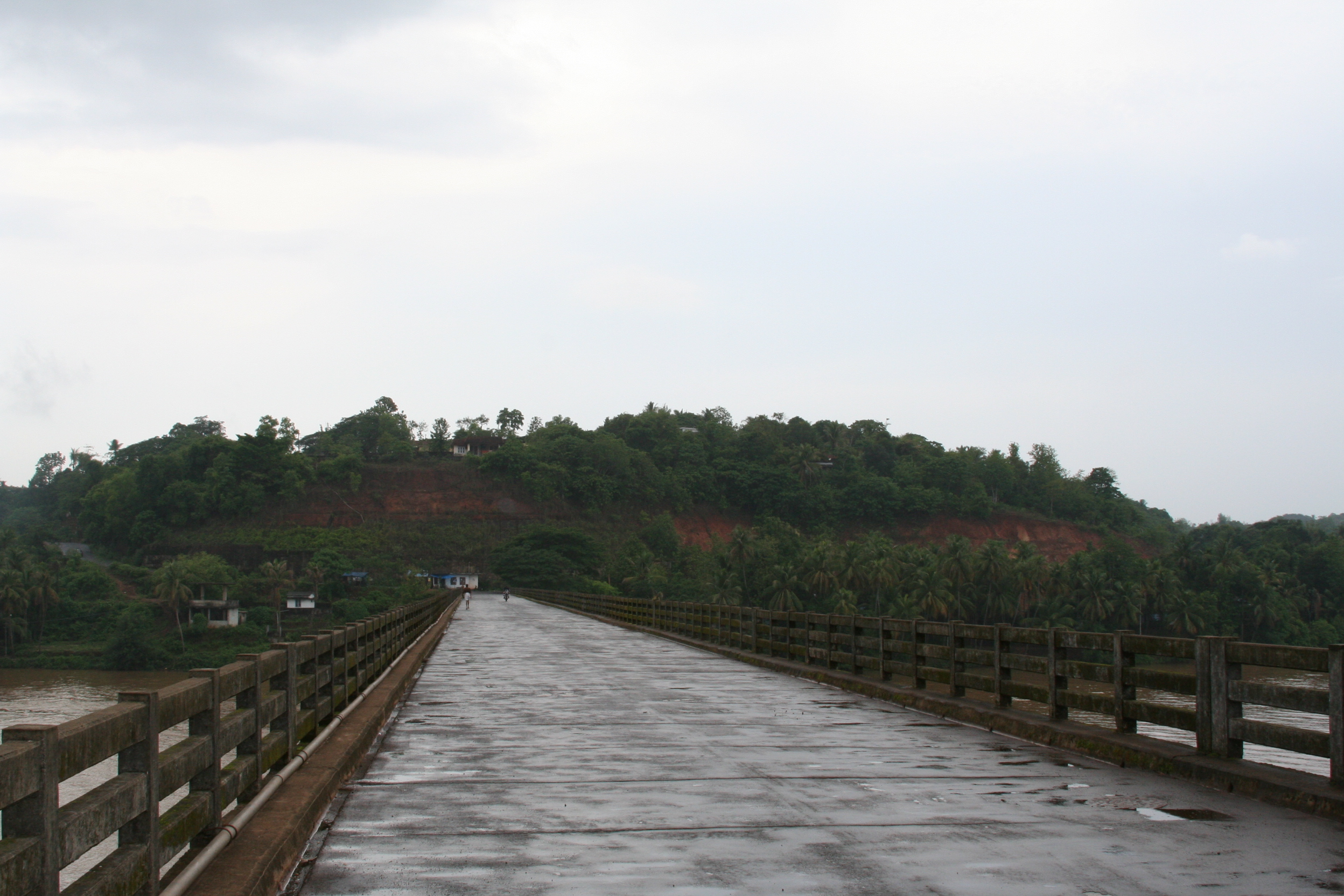 Parassinikkadavu Bridge. RO Nambiar